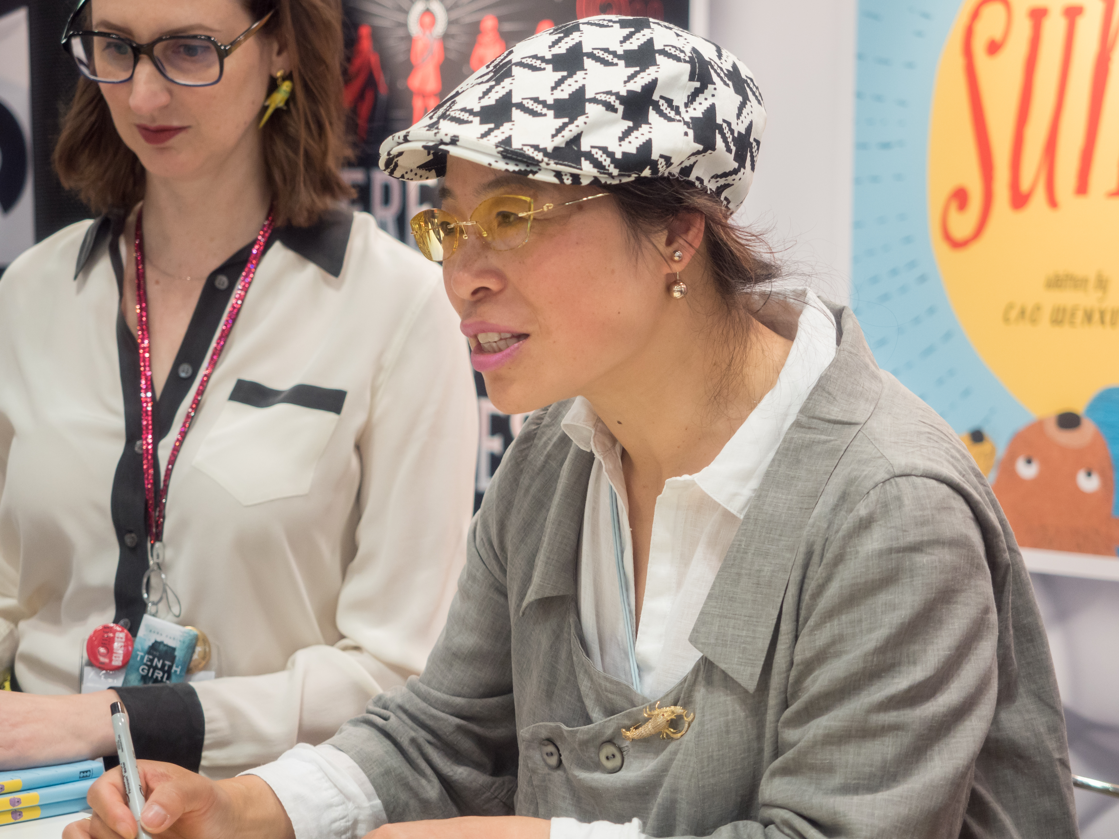 Yu Rong at BookExpo at the Javits Center in New York City, May 2019.